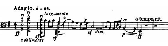 Score of the opening of Elgar's cello concerto.